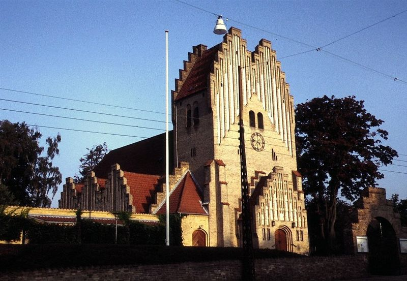 Fredens Kirke (church) in Odense Kommune. Built 1916-1920 by arch. P.V. Jensen-Klint